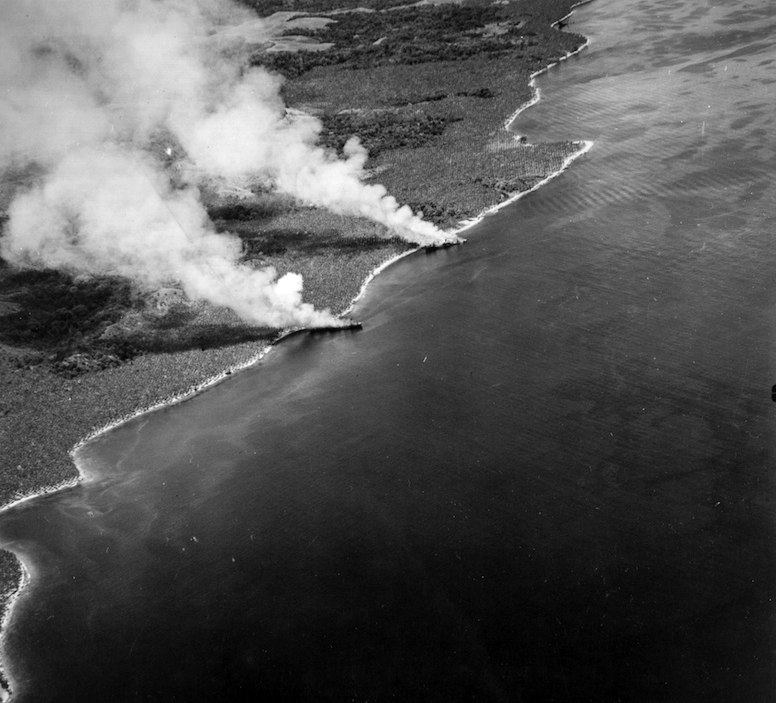 The Japanese transports Hirokawa Maru and Kinugawa Maru beached and burning after a failed resupply run to Guadalcanal on 15 November 1942.